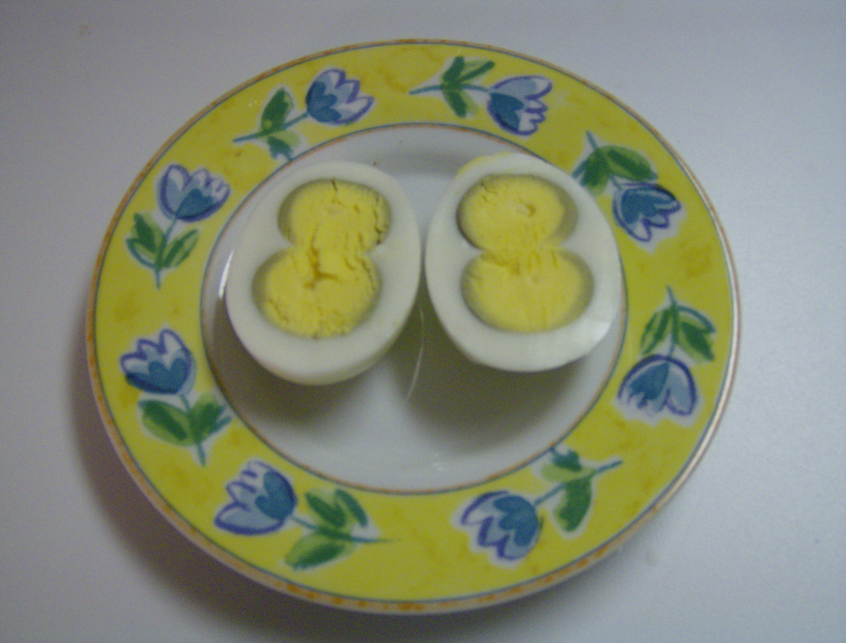 A hard boiled double yolker, found by happy accident and cut at just the right angle, without knowing what was inside.